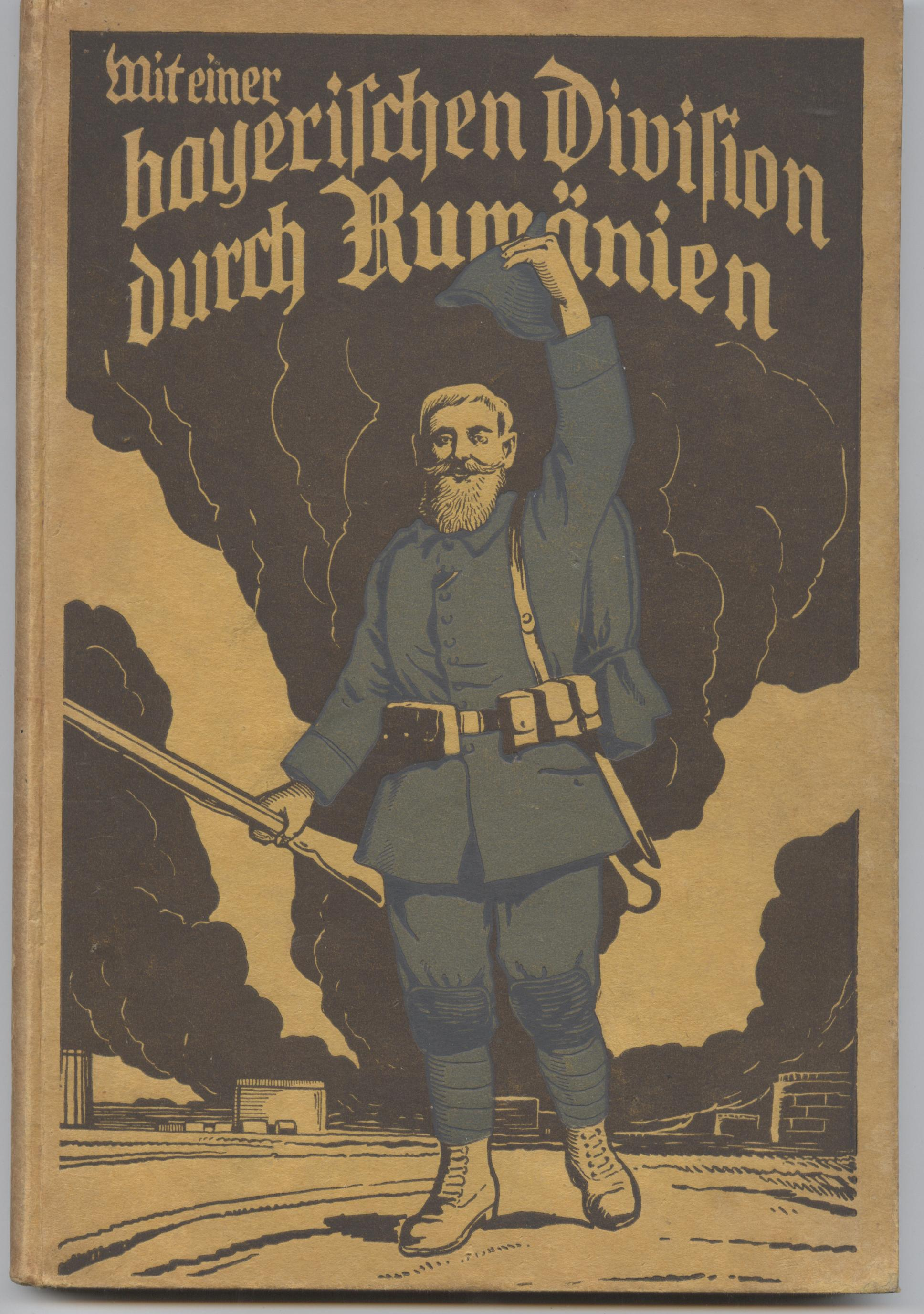 Rev. Fr. Jakob Weis, Zweibrücken, bookcover, selbst eingescannt